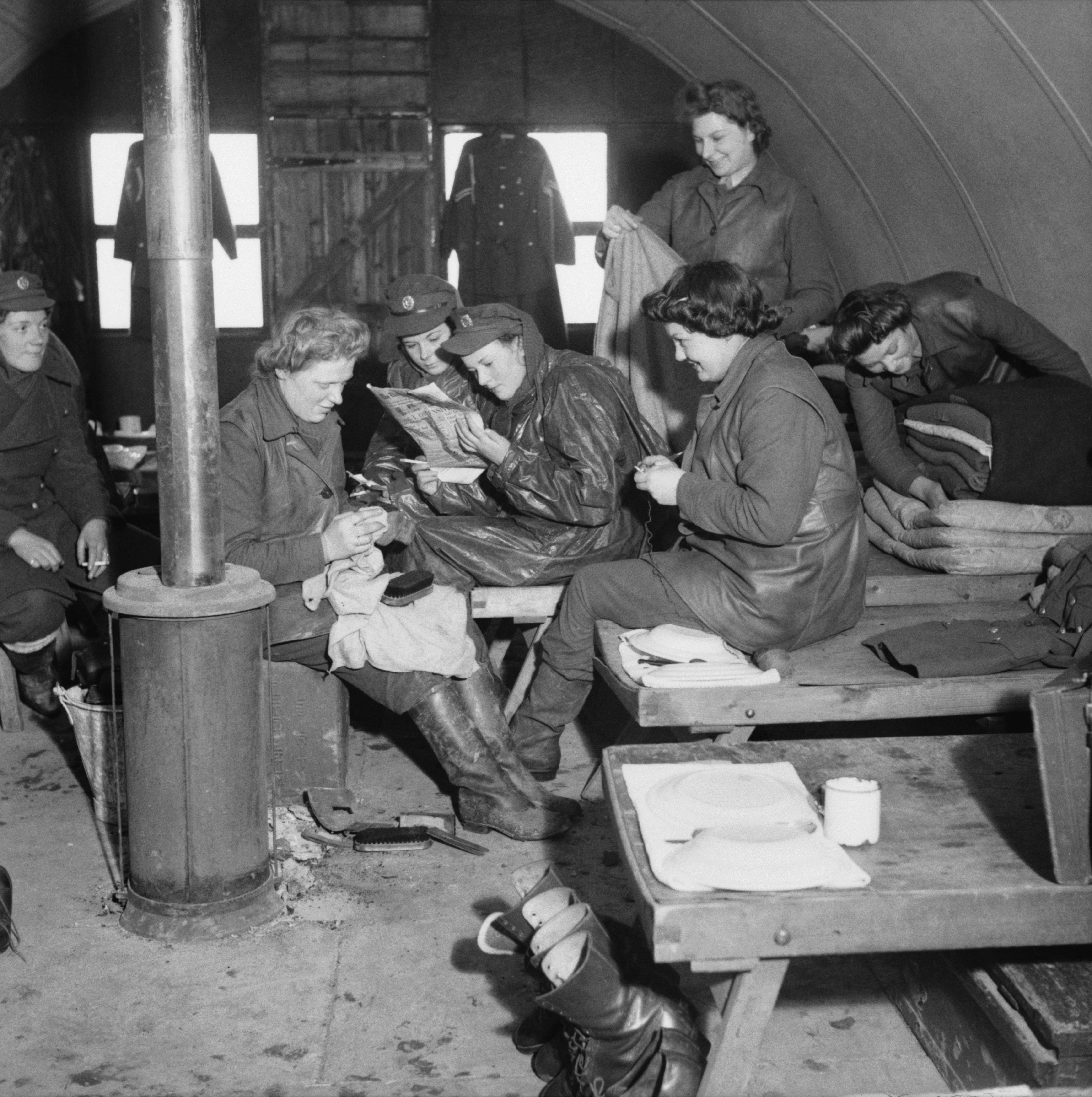 The British Army in the United Kingdom 1939-45 ATS girls serving with a mixed anti-aircraft gun battery spend their time off duty in their Nissen hut, 20 November 1944.